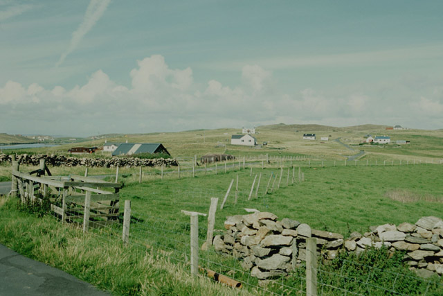 Road in the South of East Burra, Shetland, Scotland